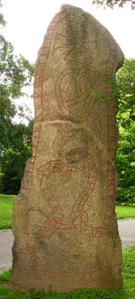 runic stone Upplands runinskrifter 940